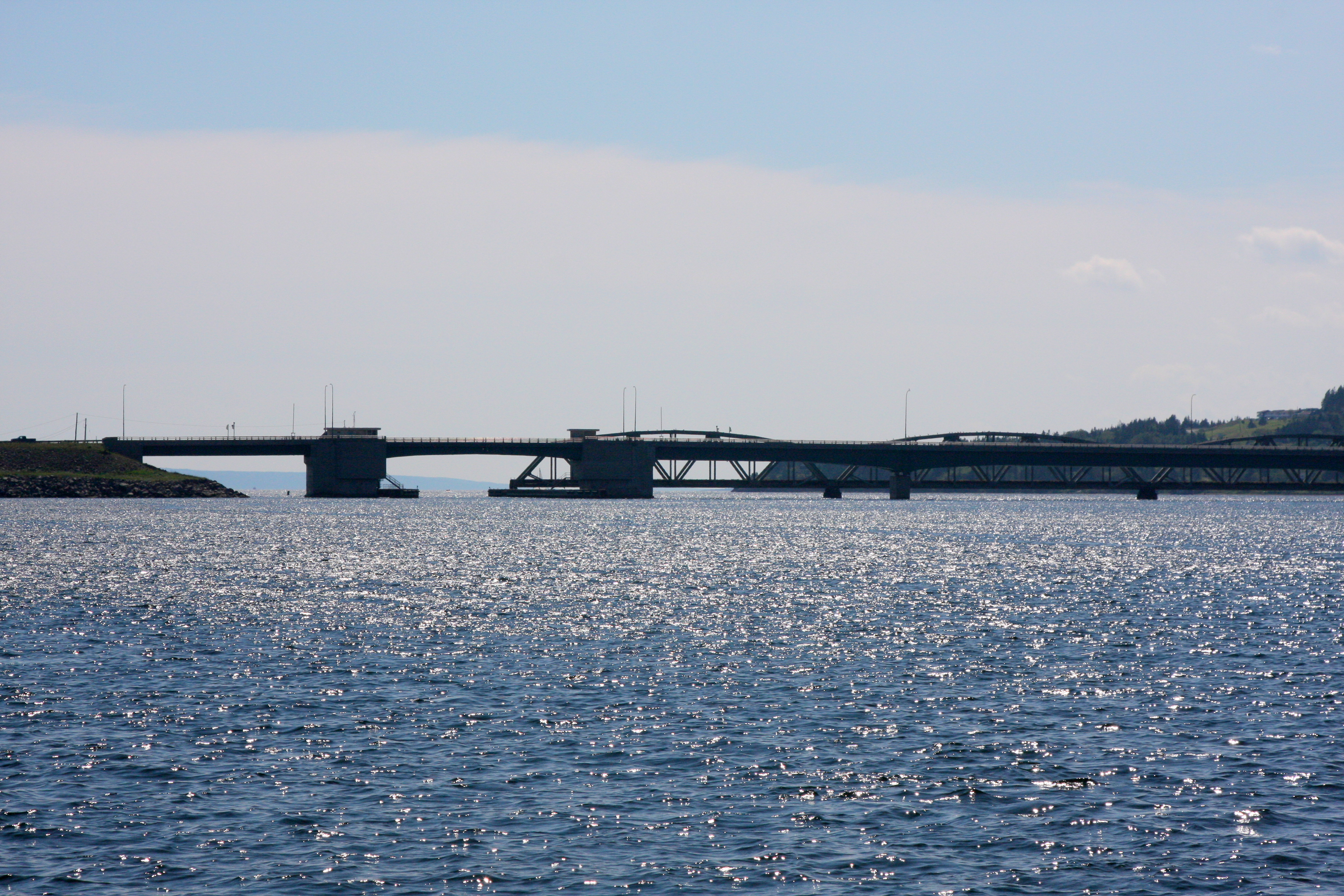 The Barra Strait is a 1 km (0.62 mi) wide channel located the Canadian province of Nova Scotia. It connects the northern and southern basins of Bras d'Or Lake, an inland saltwater body that dominates the centre of Cape Breton Island. In the foreground is Barra Strait Bridge, opened in October 1993, carrying Route 223, replacing a ferry across the strait. Behind it (with the arched spans) is the Barra Strait Railway Bridge, the longest railway bridge in the province, built in the 1880s by the Intercolonial Railway of Canada.